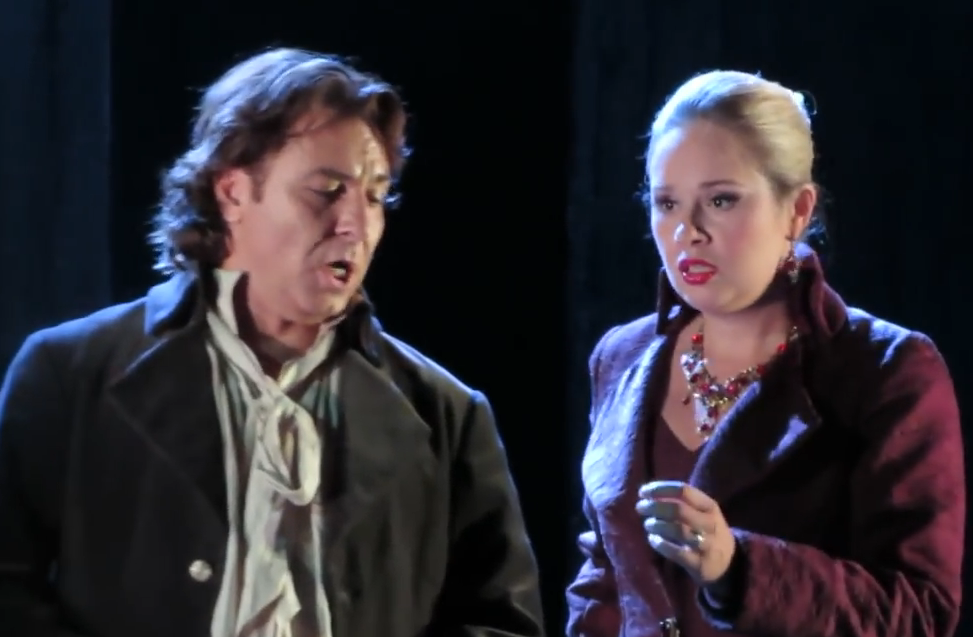 Roberto Alagna and Elena Maximova in Verdi's opera Don Carlos